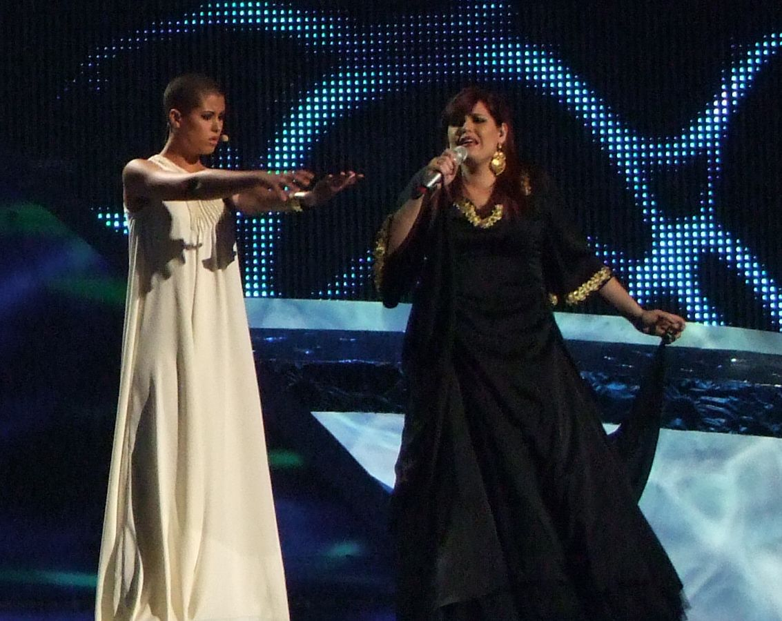 Vânia Fernandes (Portugal) performing in the 2nd semi-final at the Eurovision Song Contest 2008 in Belgrade, Serbia, May 22, 2008.